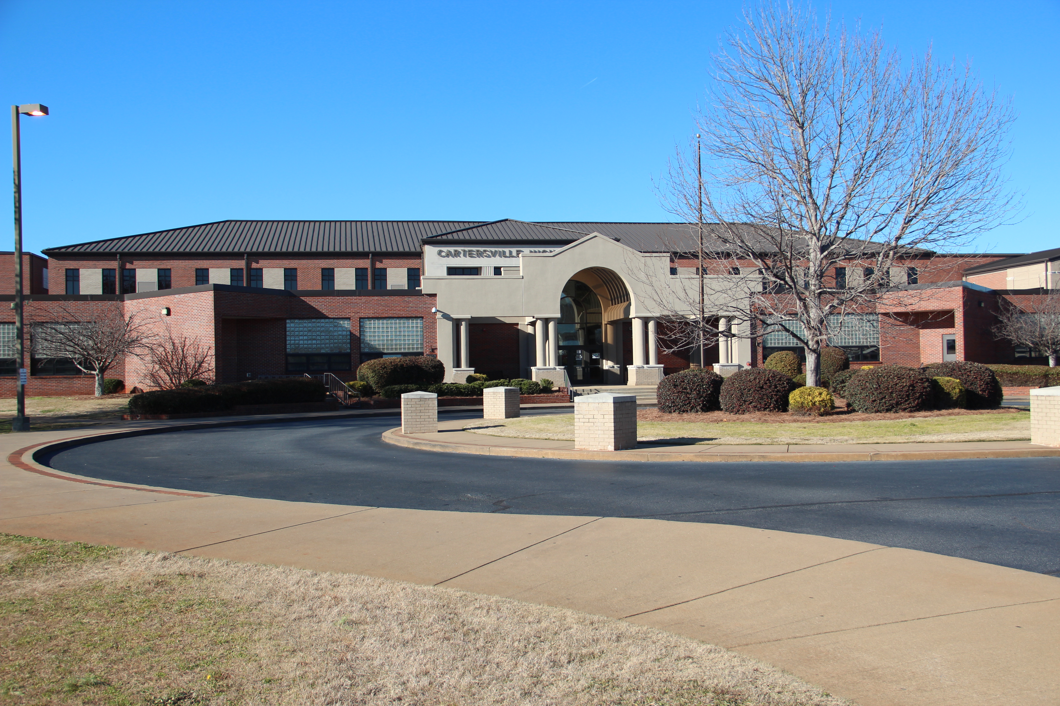 Cartesrville High School